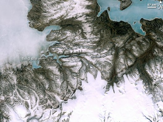 Landsat 7 image of Ellesmere Island showing the field site of the Tiktaalik discovery.